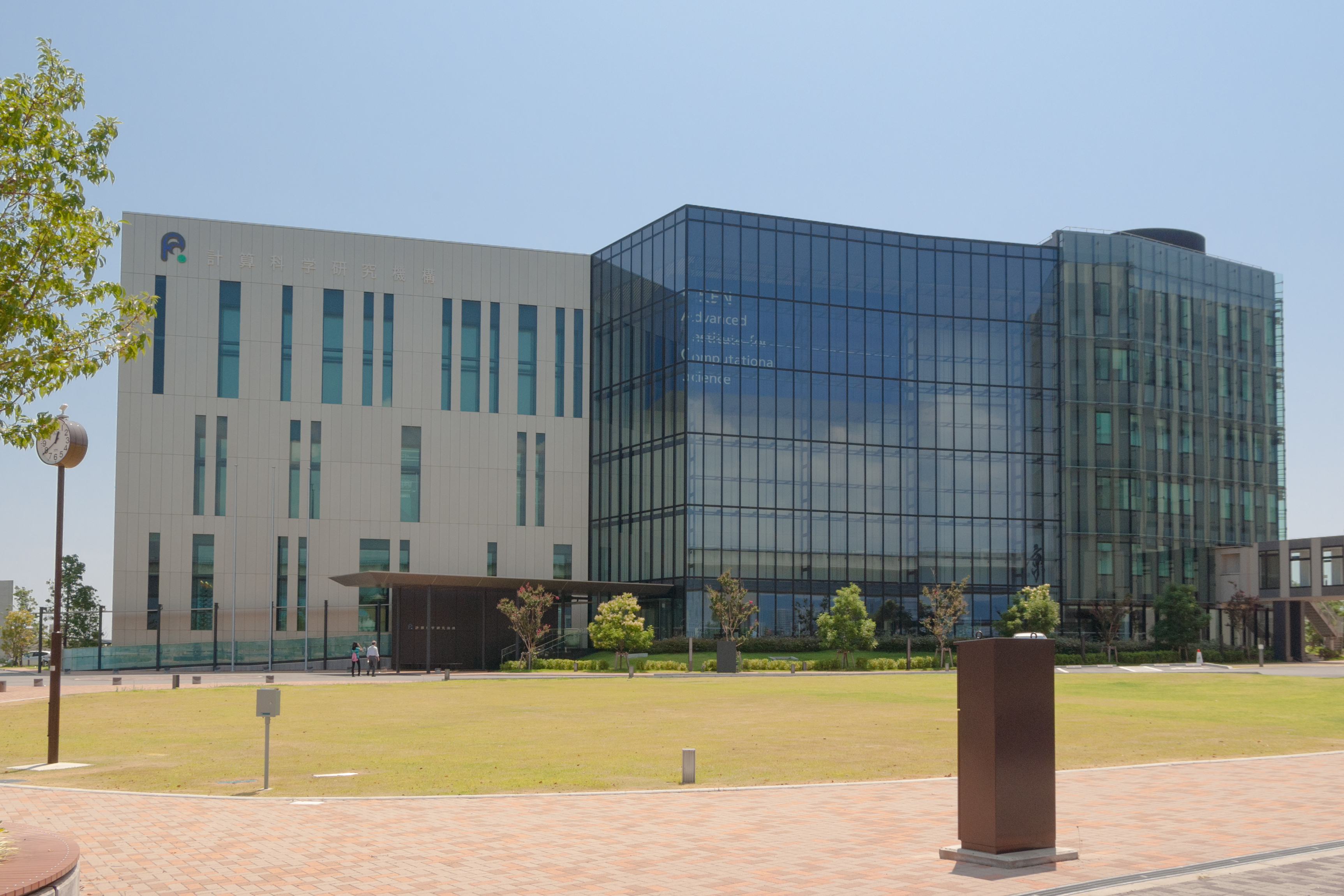 Photograph of RIKEN Advanced Institute for Computational Science (AICS), which houses the K computer, in Chuo-ku, Kobe, Hyogo Prefecture, Japan.